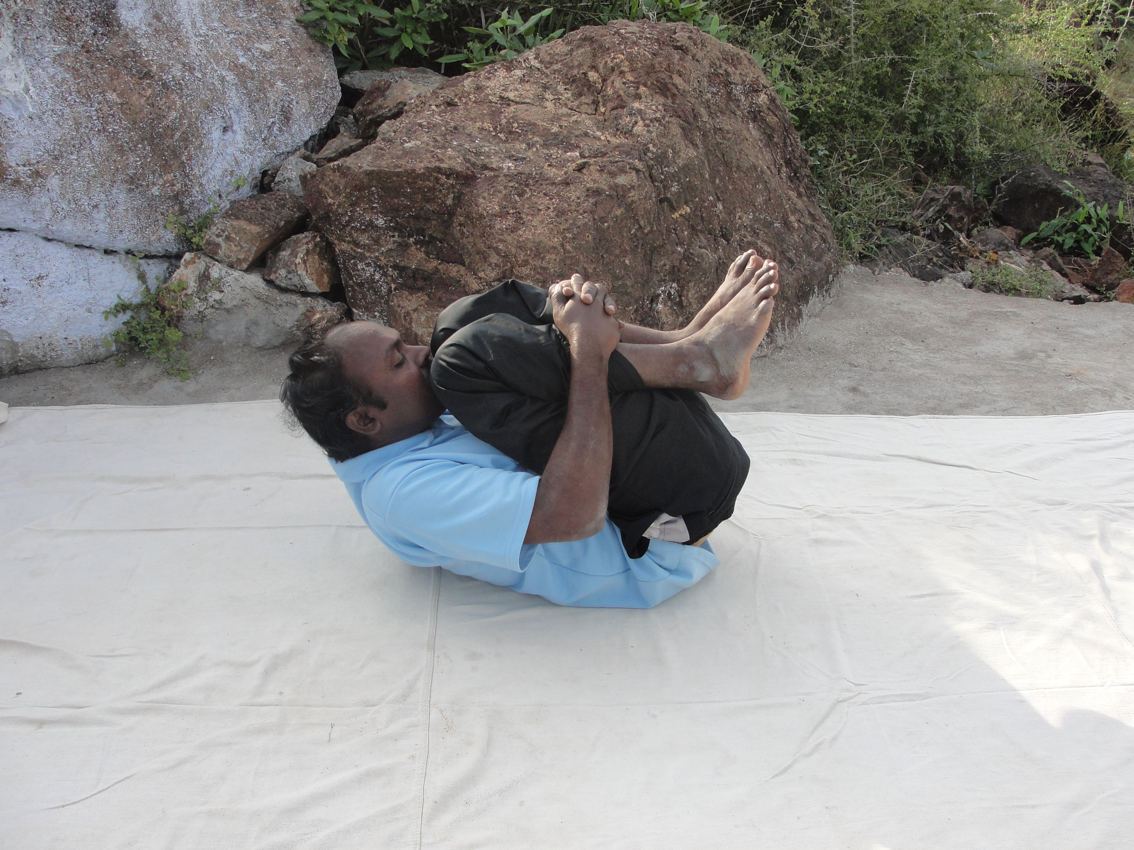 A style of pavanamuktasana